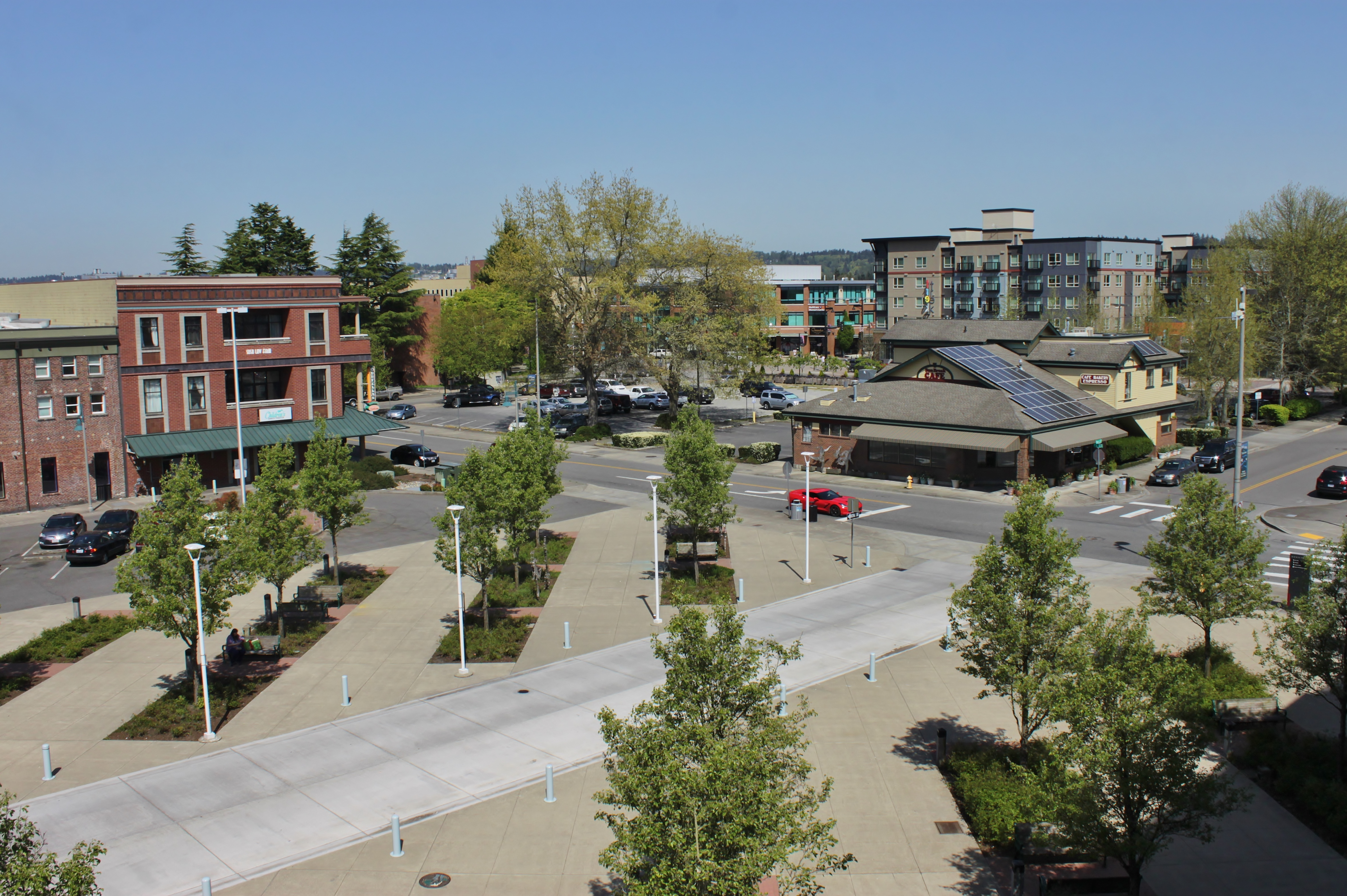 The public plaza at Auburn station in Auburn, Washington, US, seen from the parking garage.